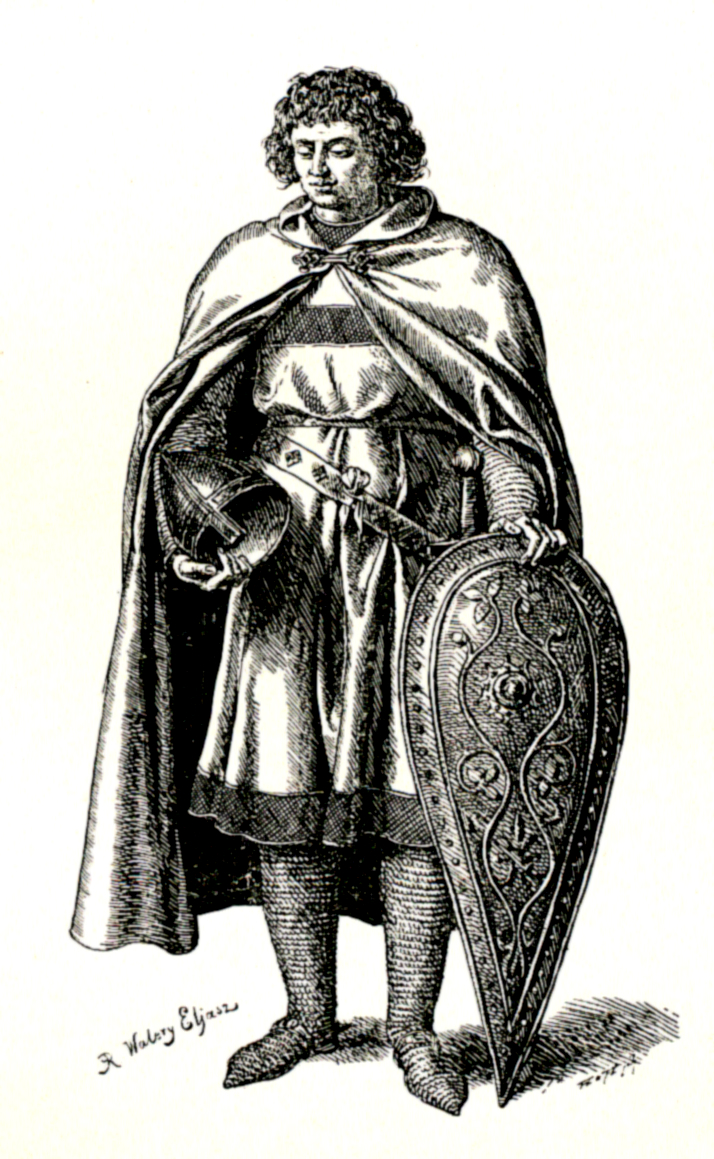 Boleslaus the Curly, Duke of Poland